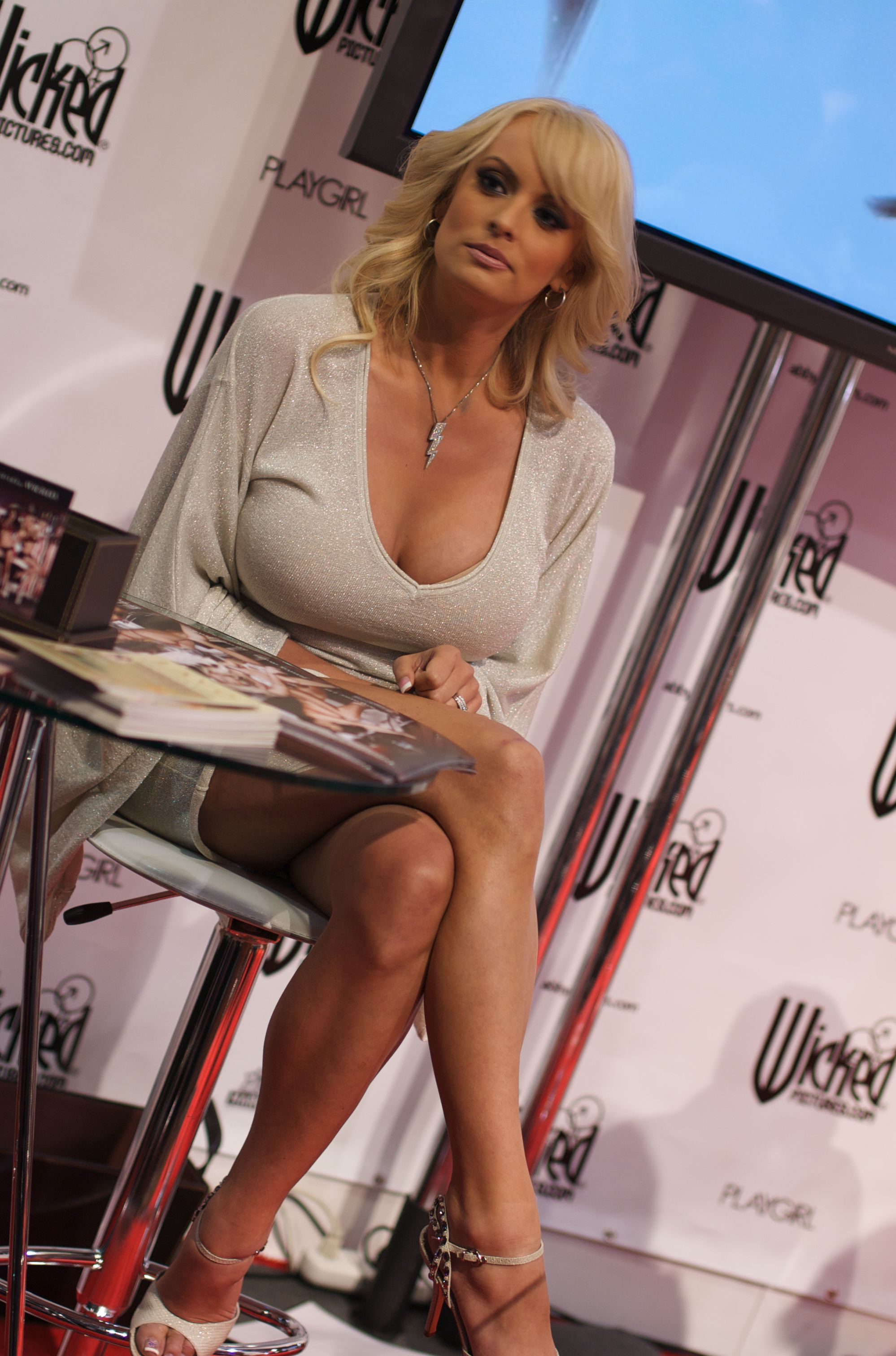 Stormy Daniels. 2009 AVN Adult Entertainment Expo (AEE) at the Las Vegas Sands Convention Center.